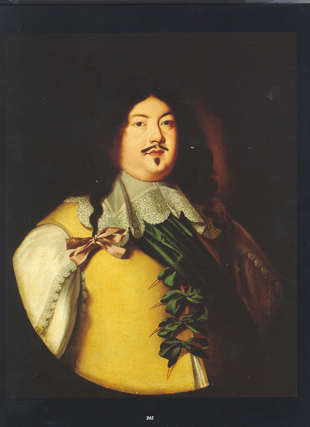 Portrait of Odoardo Farnese, Duke of Parma (1612-1646), son of Ranuccio I Farnese and Margherita Aldobrandini, father of Ranuccio II Farnese, Ordine Costantiniano di S.Giorgio